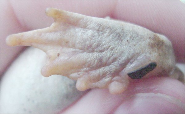 Foot sole of Scaphiopus couchii, a north american toad.